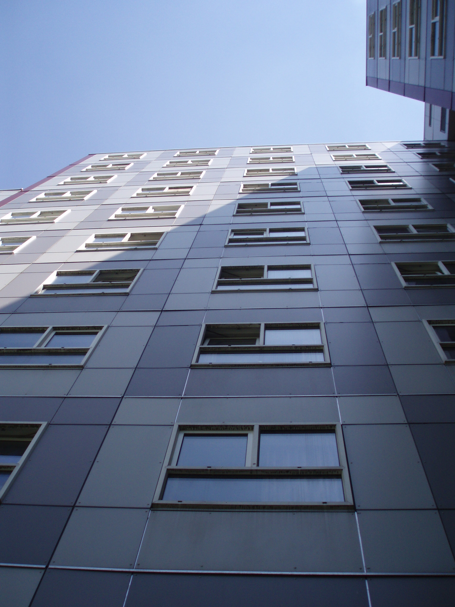 Vossenveld, a block of student apartments of the Stichting Studenten Huisvesting Nijmegen on the Vossendijk in Nijmegen beside the Maas-Waal canal.